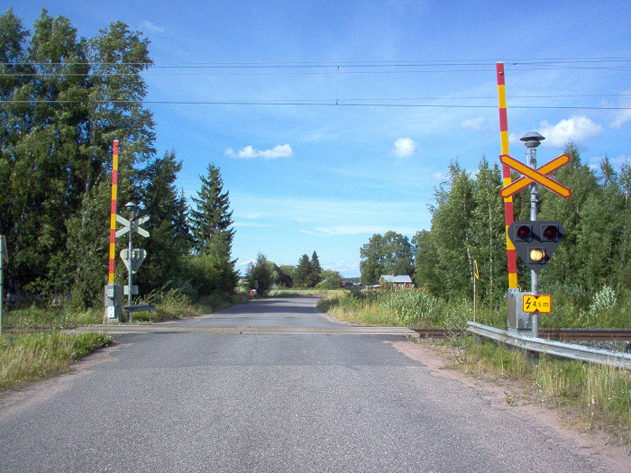 A Finnish road/rail level crossing equipped with half-gates, crossbucks, warning lights and bells. Location: Village of Järilä in Kokemäki municipality, along the Tampere–Pori main line.